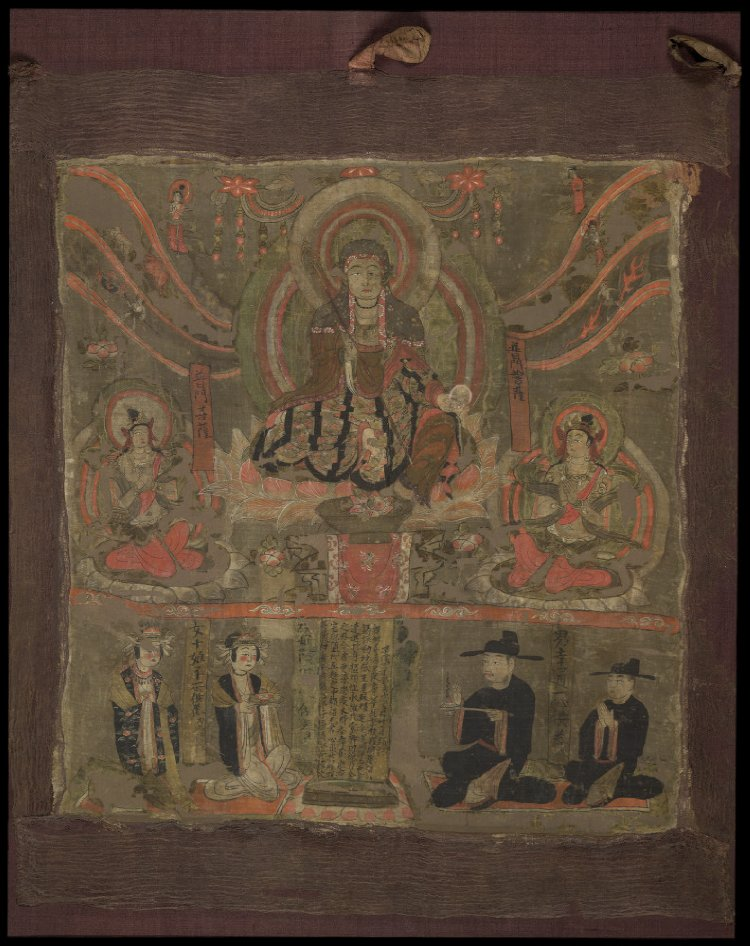 Kṣitigarbha as Lord of the Six Ways Northern Song dynasty, dated the 4th year of Jianlong (963) Dunhuang Ink and colours on silk. Painted area: H. 56.1cm; W. 51.5cm; Stein painting 19. Ch.Iviii.003